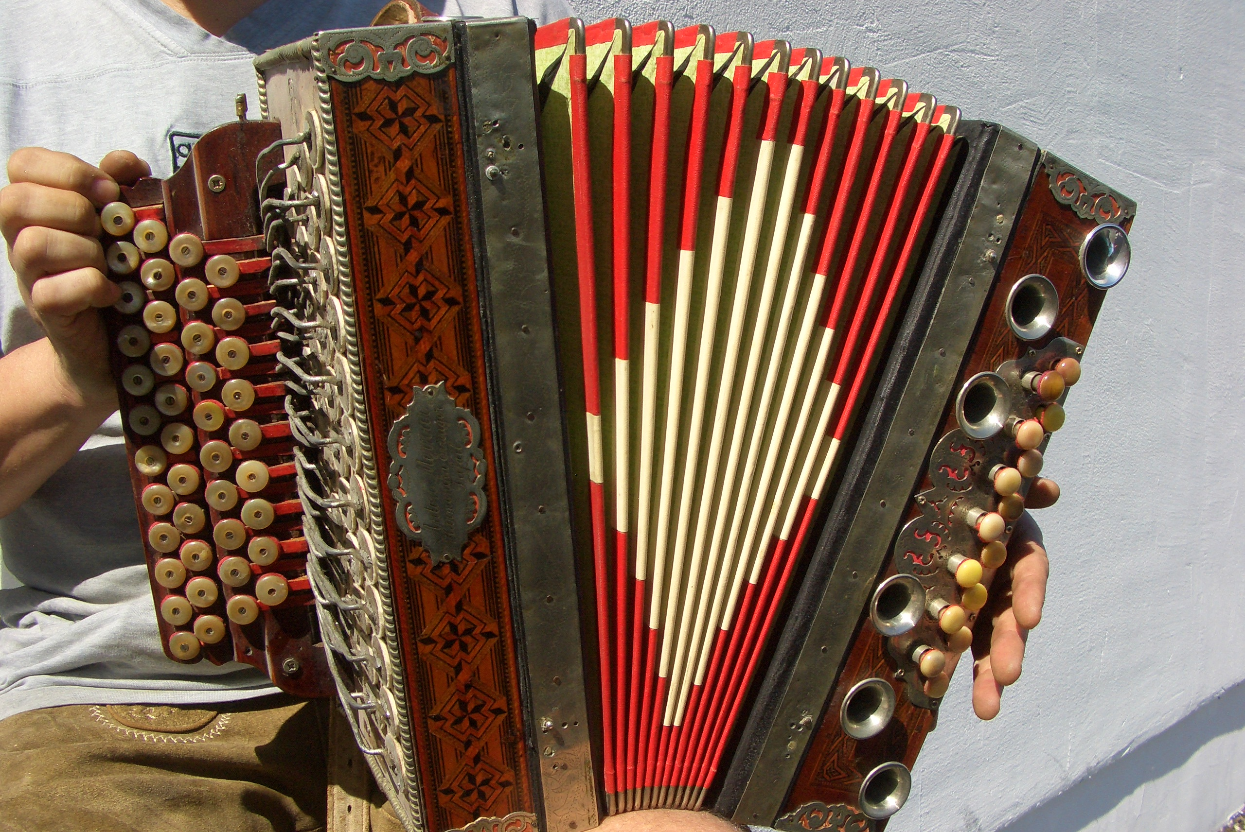 Anton Merwar Accordion built 1905 in Trifail, Untersteiermark